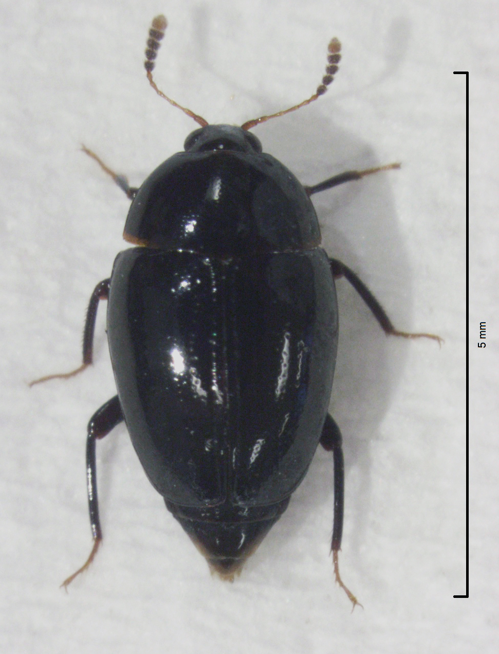 Cyparium thorpei Löbl & Leschen, 2003